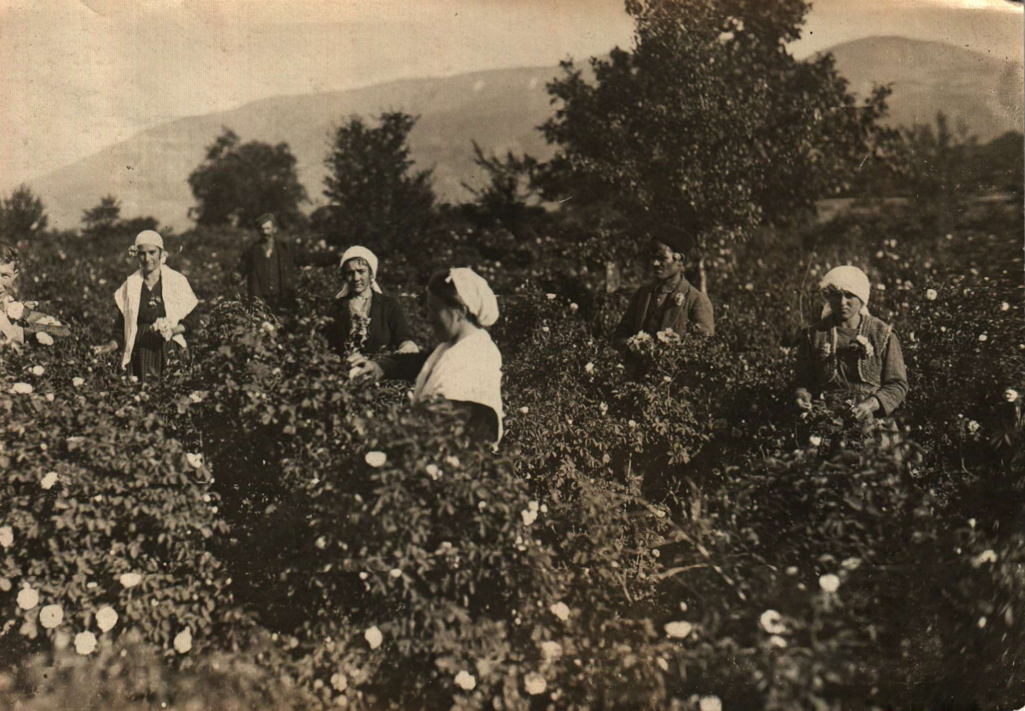 Rose harvests in Bulgaria